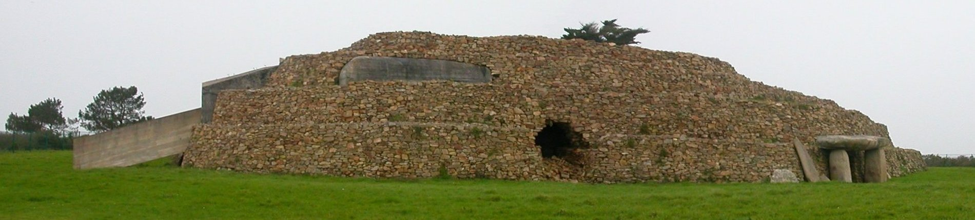 The little mount, Arzhon Rewis, Morbihan, Brittany .